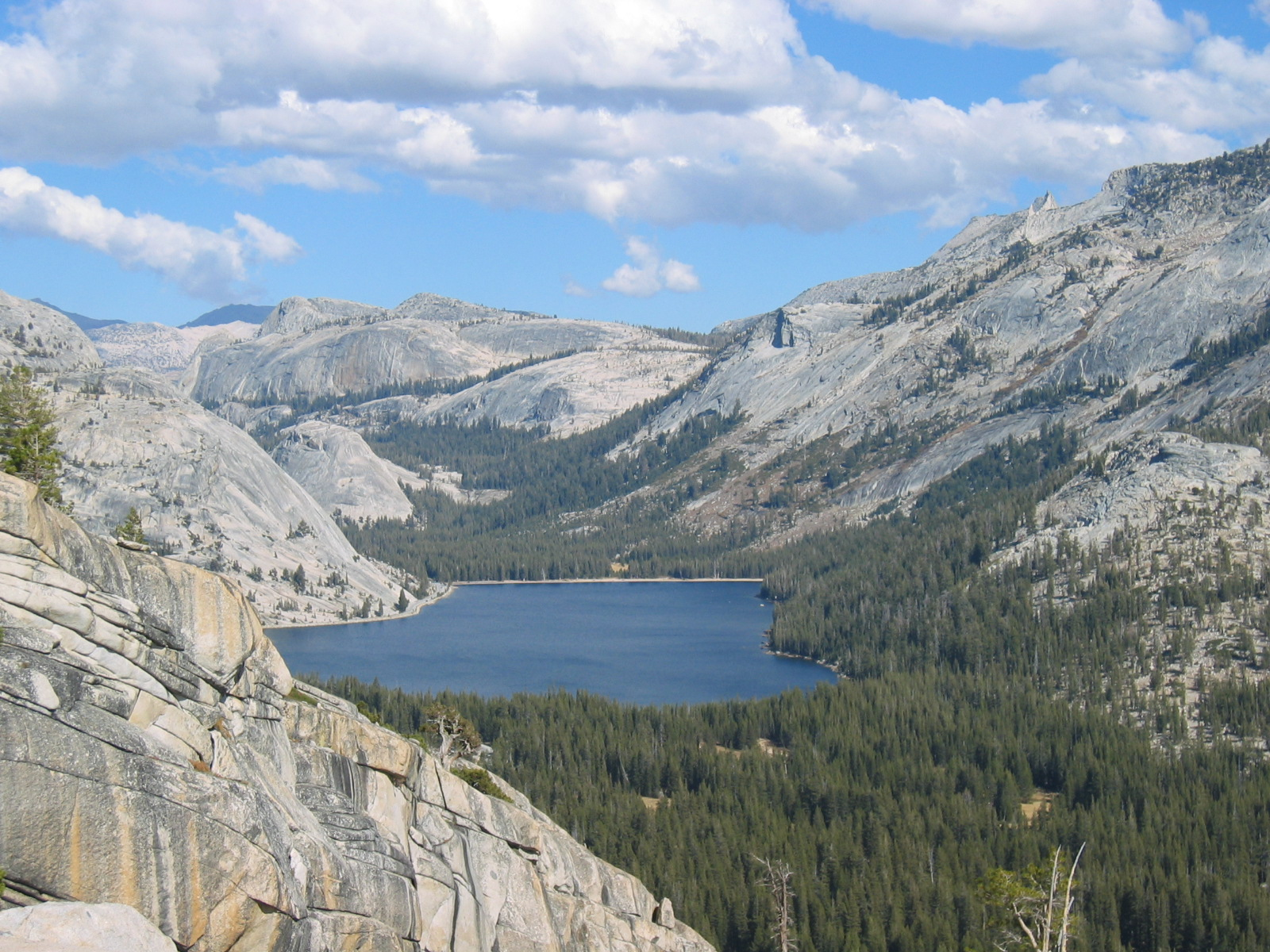 Tenaya Lake as seen from a hill southwest of the lake itself.